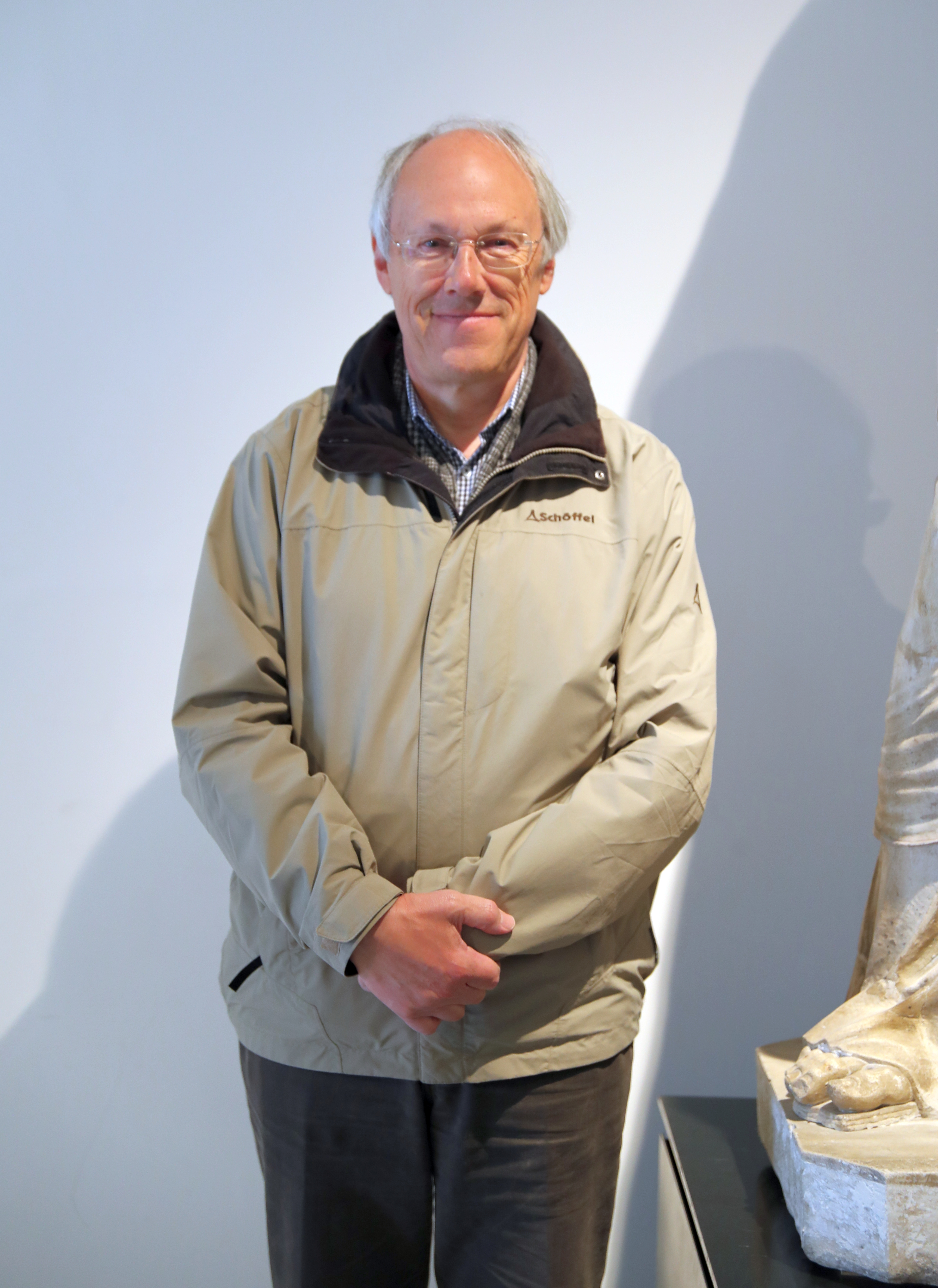 Michael Meier-Brügger at the Museo Archeologico Nazionale di Napoli.